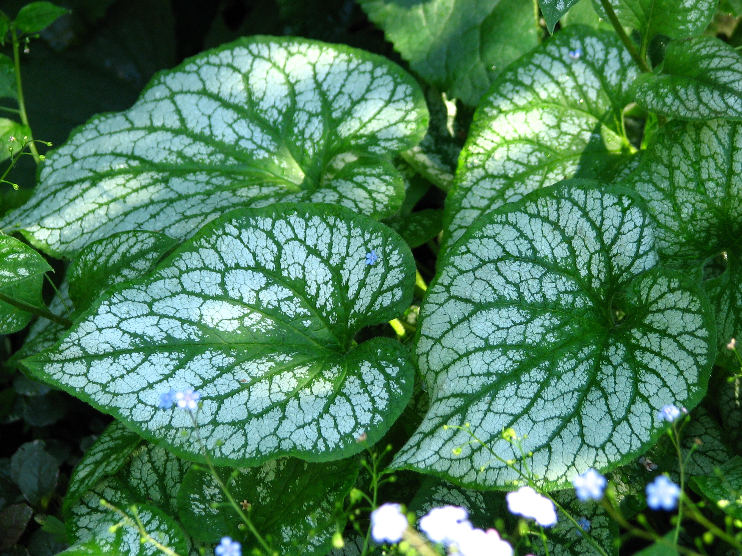 Brunnera macrophylla in the Botanical Garden of Moscow State University (main area on the Sparrow Hills).